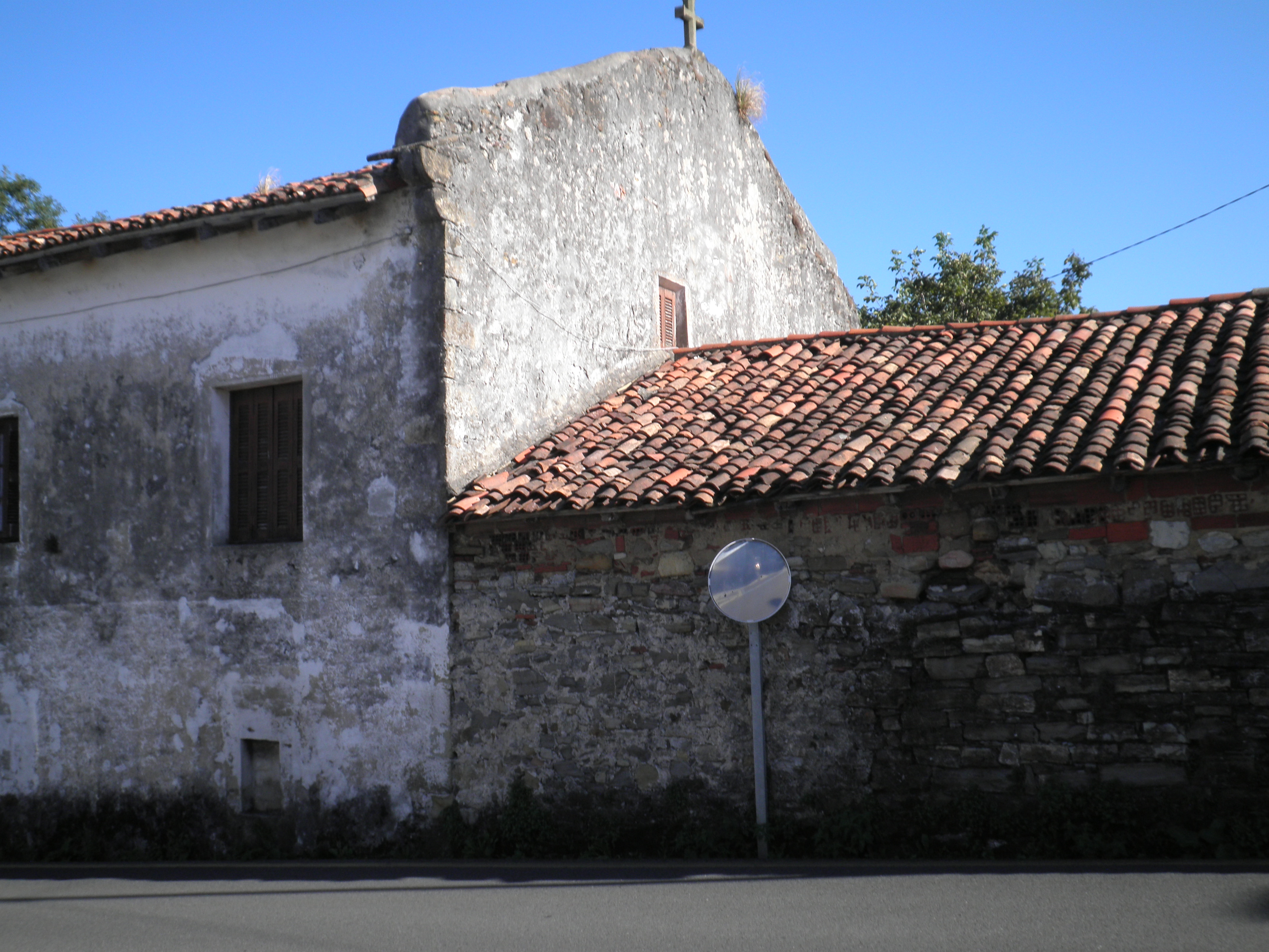 Txanpuene farmhouse